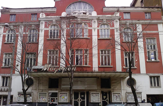 The Modern Theater Building, arch. Dimo Nitschev